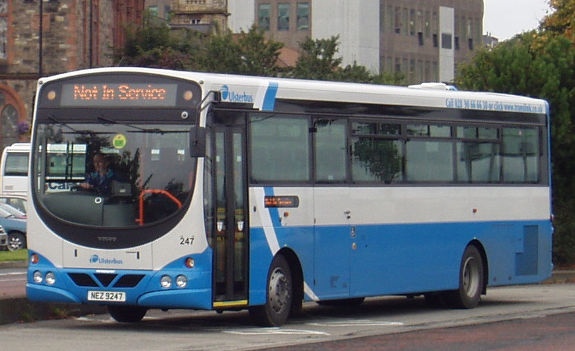 Ulsterbus bus 247 (reg. NEZ 9247), a 2007 Volvo B7R single-decker with Wrightbus Eclipse SchoolRun bodywork, in Derry.